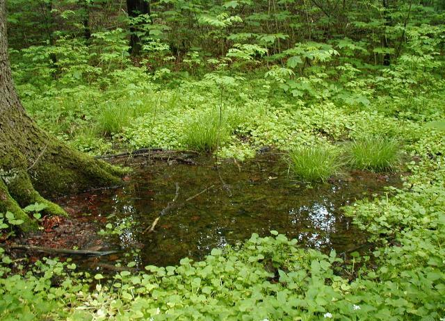 The forest floor of a natural broadleaf forst in May (Denmark)